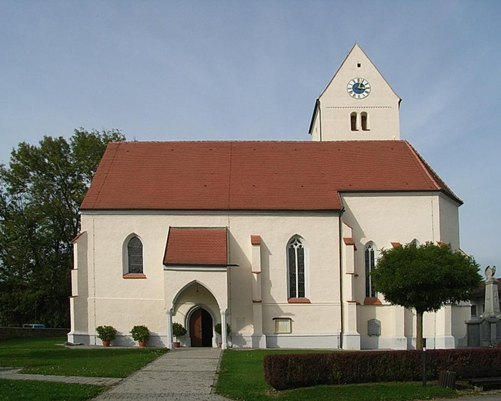 Reutern (Bad Griesbach im Rottal municipality), St Valentine Parish Church from south.